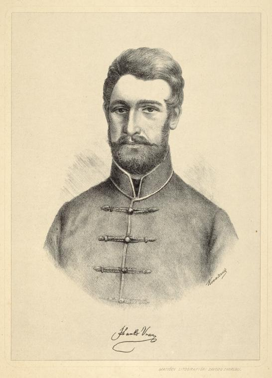 Stanko Vraz, Croatian poetHrvatski: Stanko Vraz, Album zaslužnih Hrvata 19. stoljeća, Zagreb, 1898.